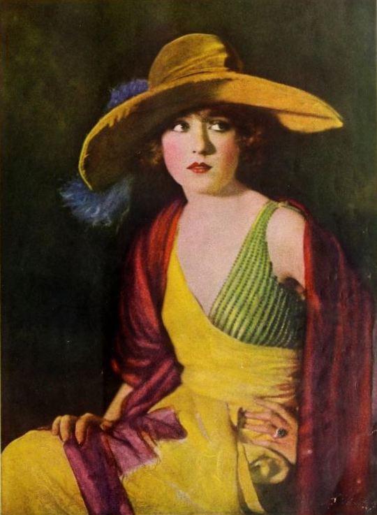 Colorized photograph of actress Mollie King on page 9 of the September 1919 Shadowland (credit on page 79).